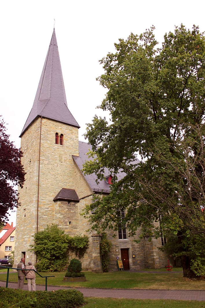 Protestant church in Bad Sassendorf.